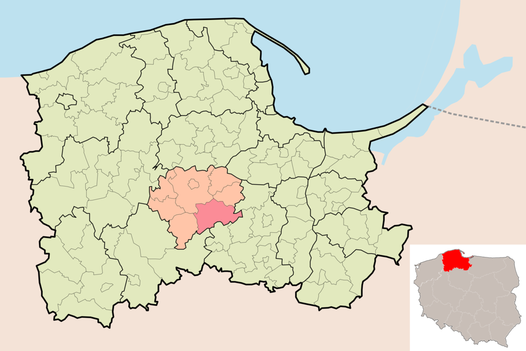 Locator map for communes (gmina) in pomorskie, with powiat highlighted Map - PL - powiat koscierski - Stara Kiszewa.PNG